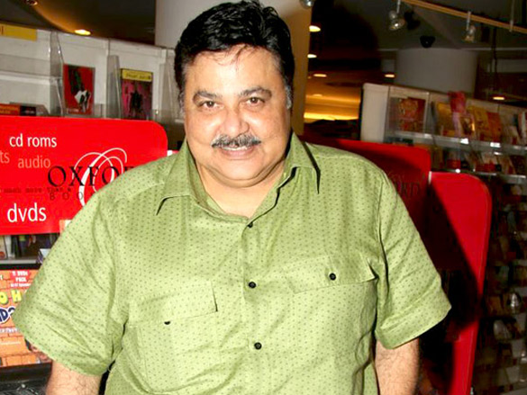 Satish shah at swaroop rawals new book launch